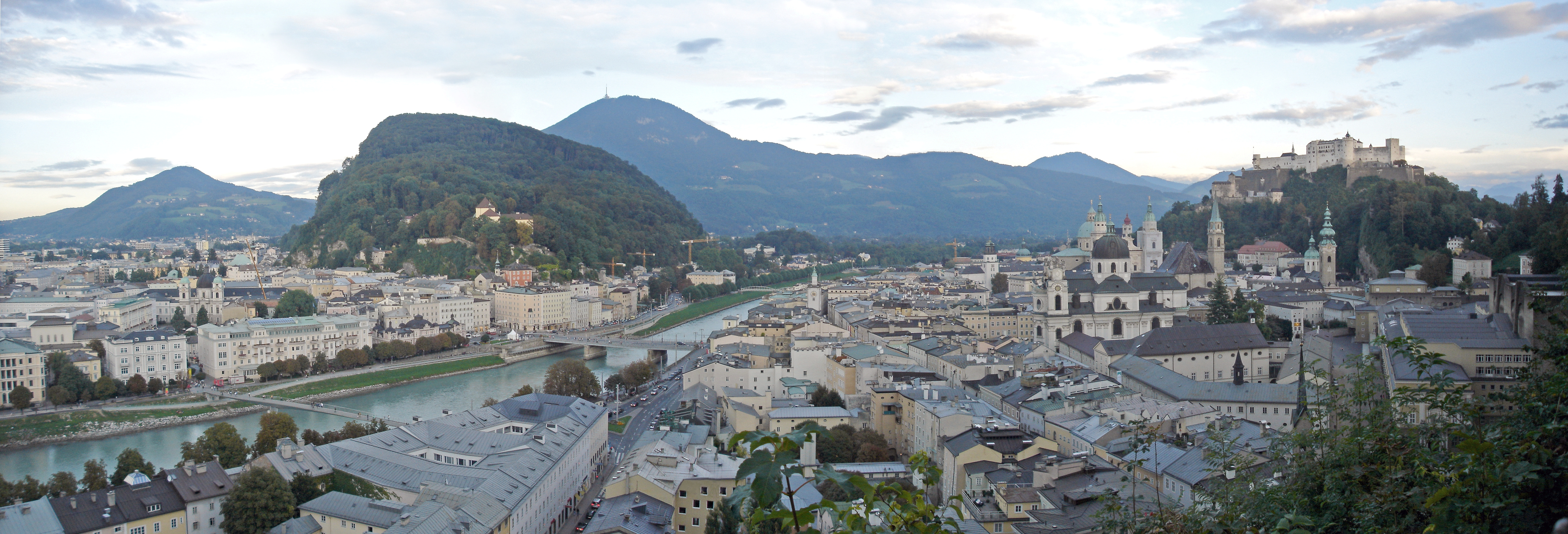 Salzburg's old town from Mönchsberg.